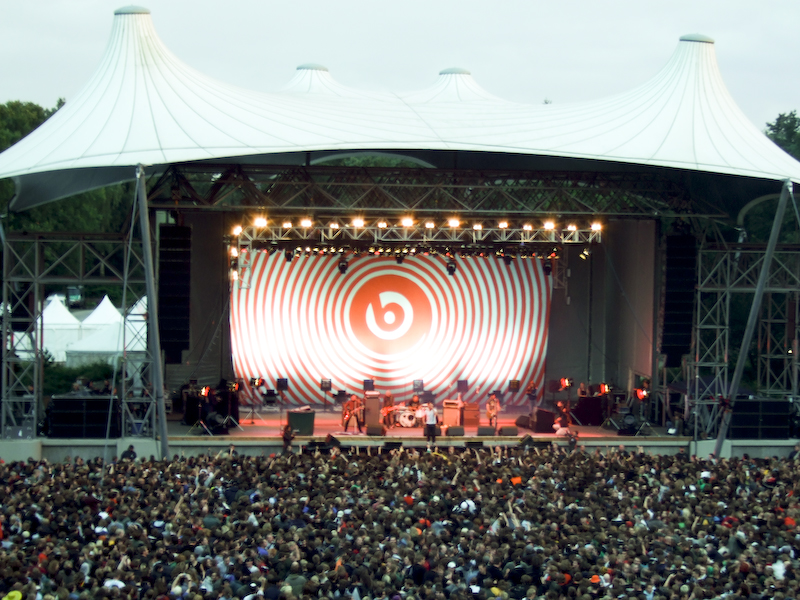 Beatsteaks concert in the Wuhlheide (Berlin)